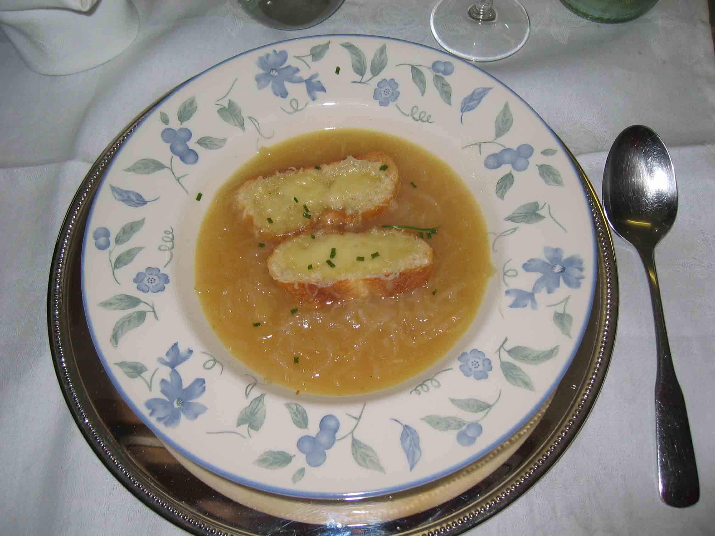 French ognion soup